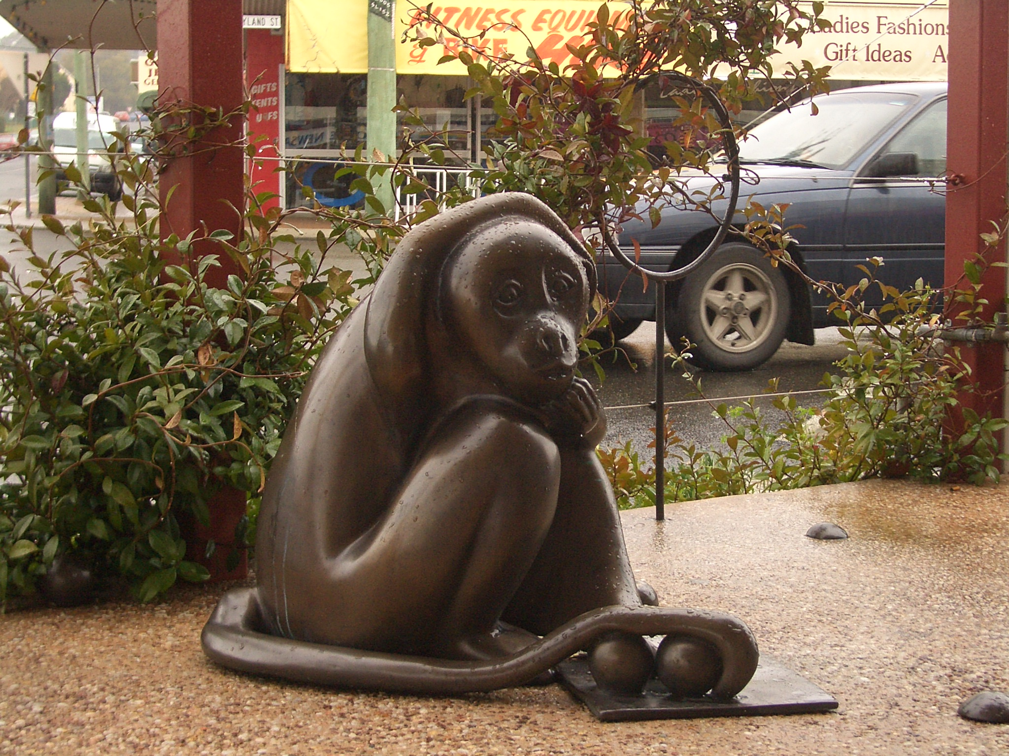 The brass monkey (and some balls) in Post Office Square, Stanthorpe, Queensland.